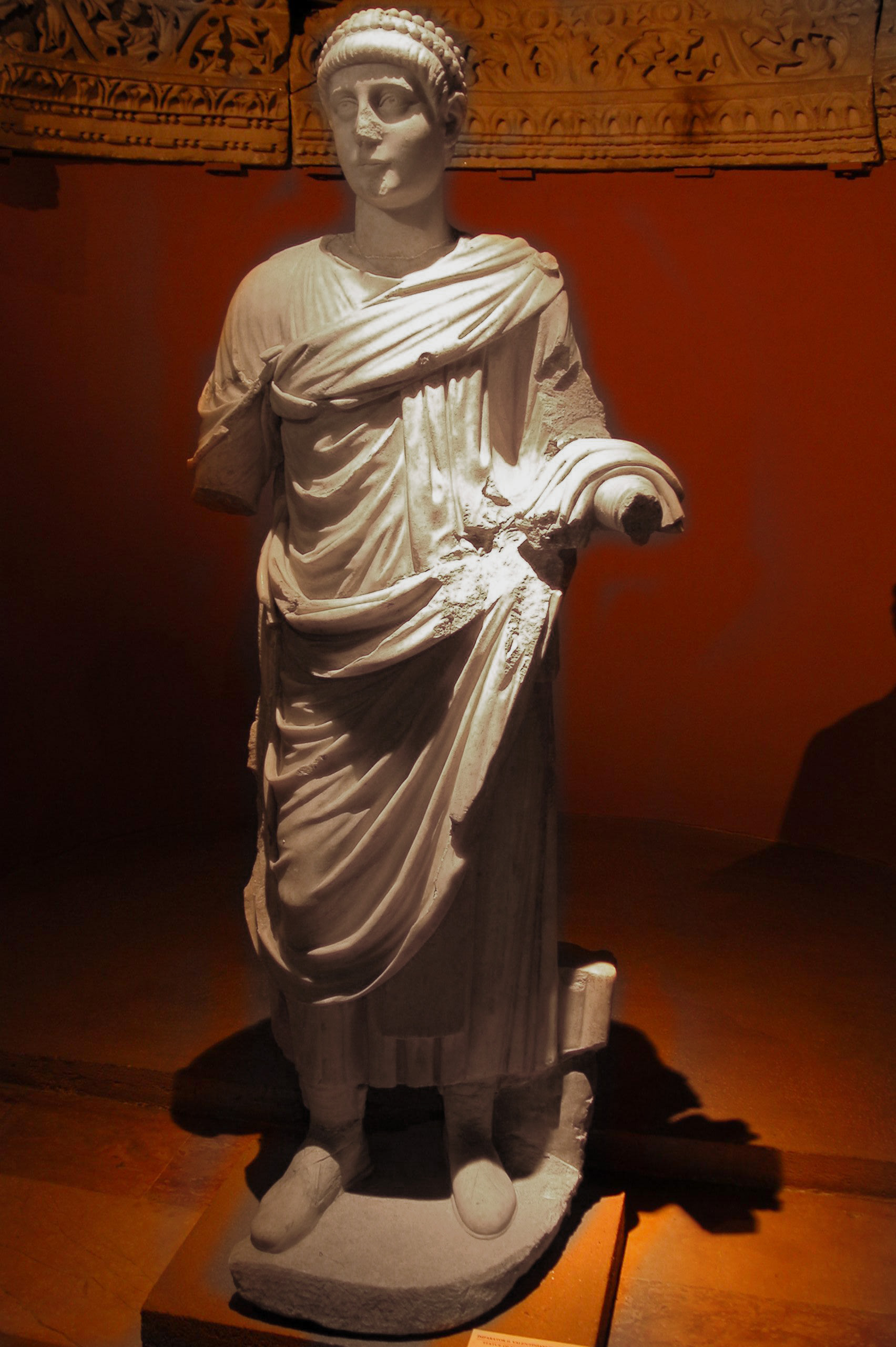 A Statue of emperor Valentinian II - Marble - Aphrodisias Geyre - Aydin - 387 – 390 Ad